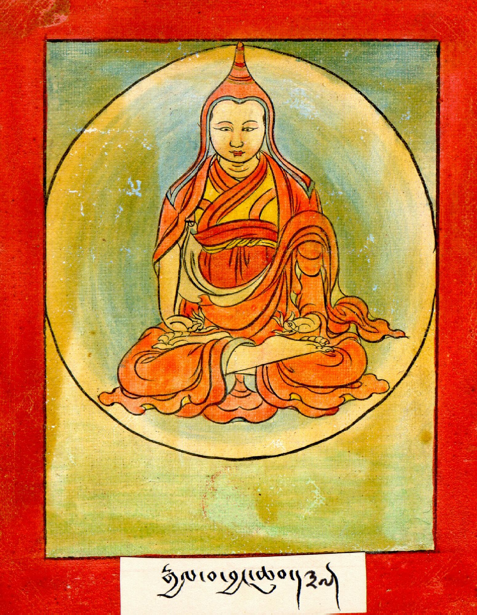 Gyalwa Janchub 8th century Tibetan Translator